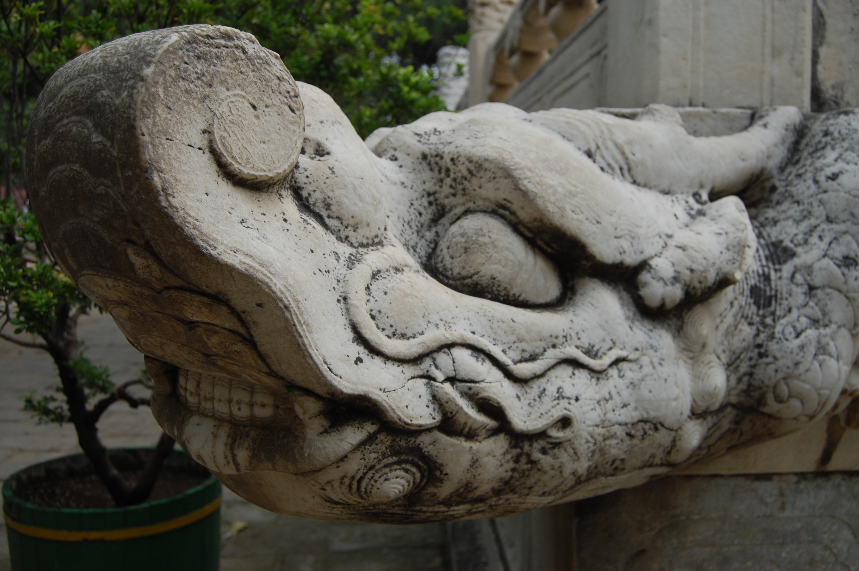 Sculpture of a son of dragon's head (Chīshǒu (螭首)) at Ming tombs, Beijing